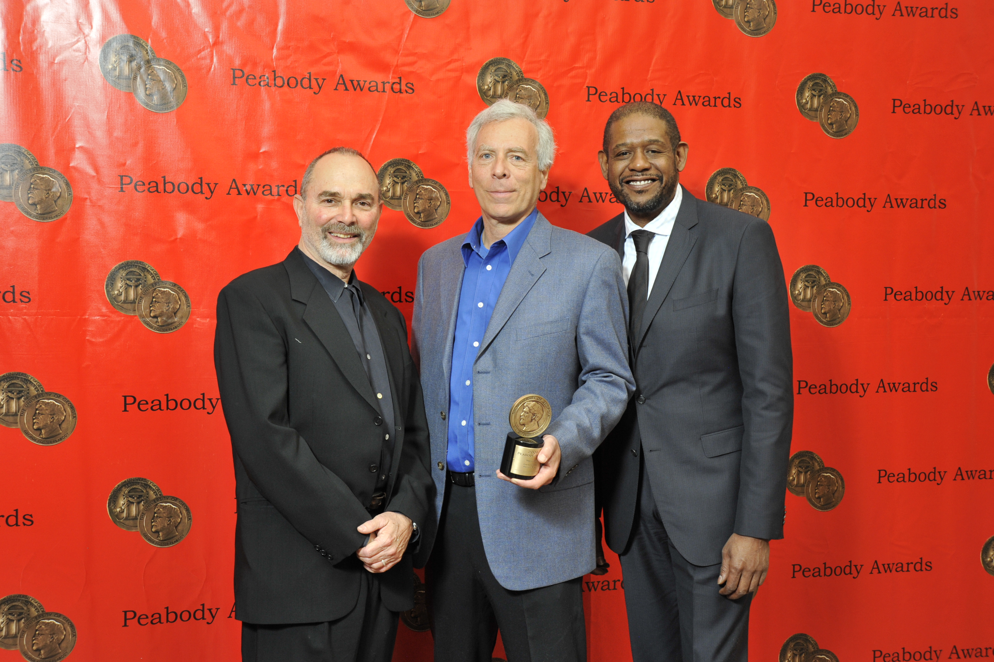 Mark Benjamin, Marc Levin and Forest Whitaker, 69th Annual Peabody Awards Luncheon Waldorf=Astoria Hotel New York, NY USA May 17, 2010